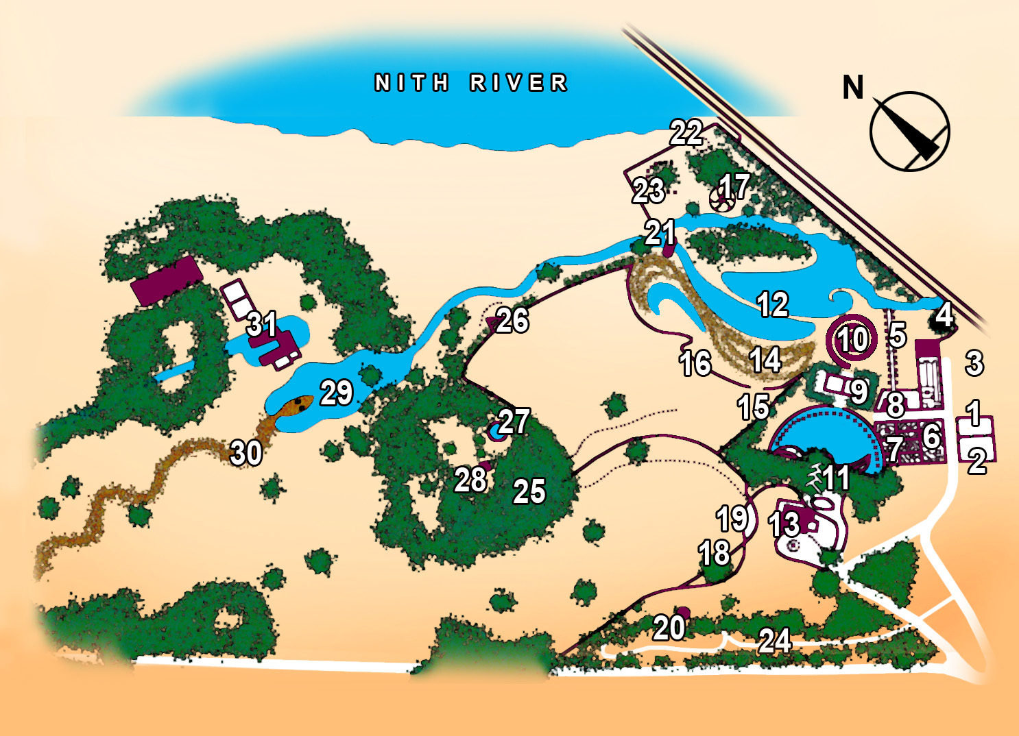 The Garden of Cosmic Speculation is a 30 acre (12 hectare) sculpture garden created by landscape architect and theorist Charles Jencks at his home.